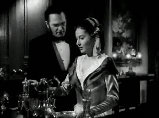 Cropped screenshot of Barbara Stanwyck from the trailer for the film The Man with a Cloak